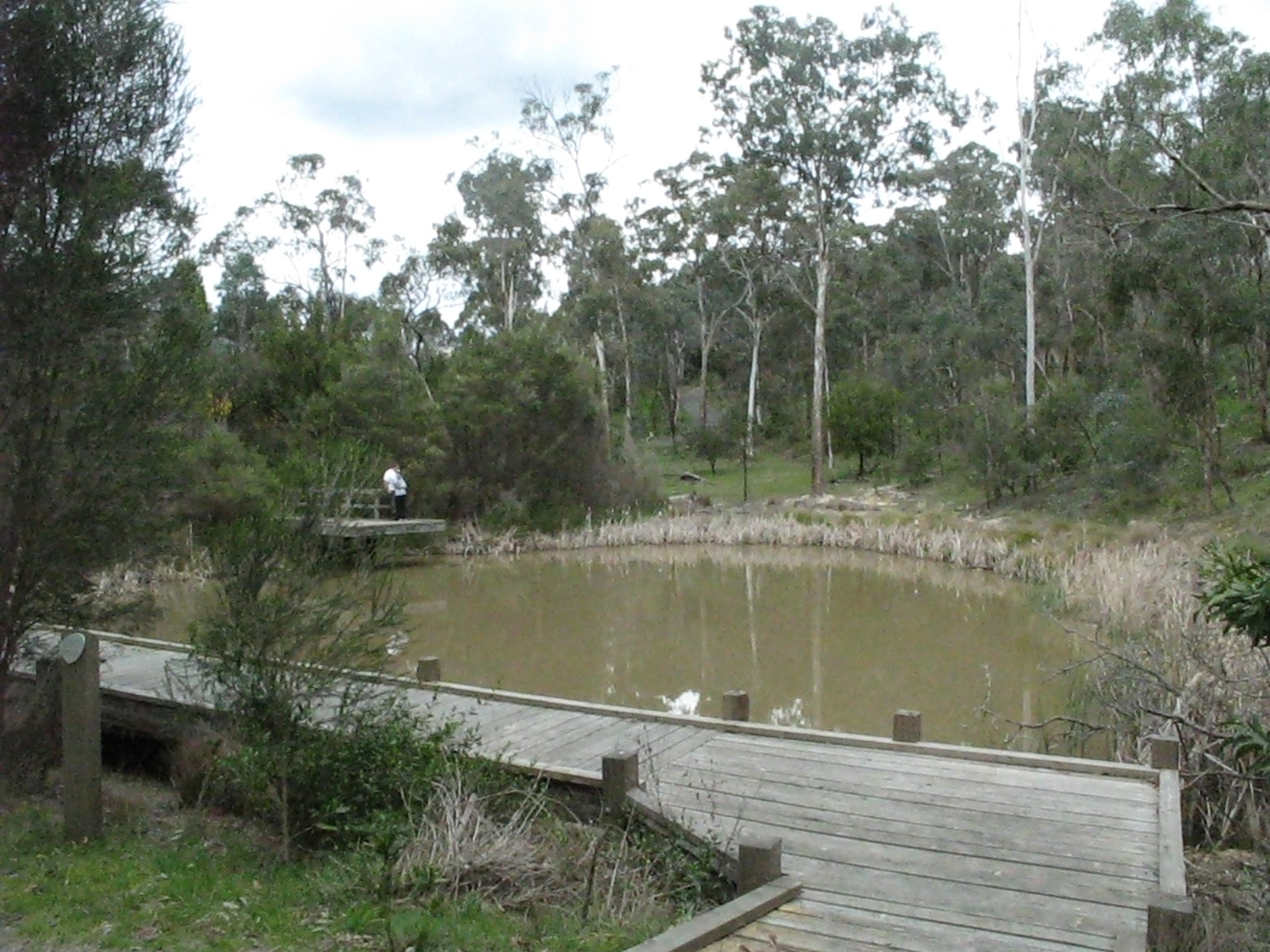 I took this photo myself